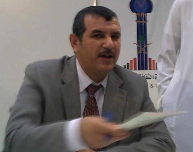 Mohamed Hachemi Hamidi at a book signing session in Riyad, Saudi Arabia